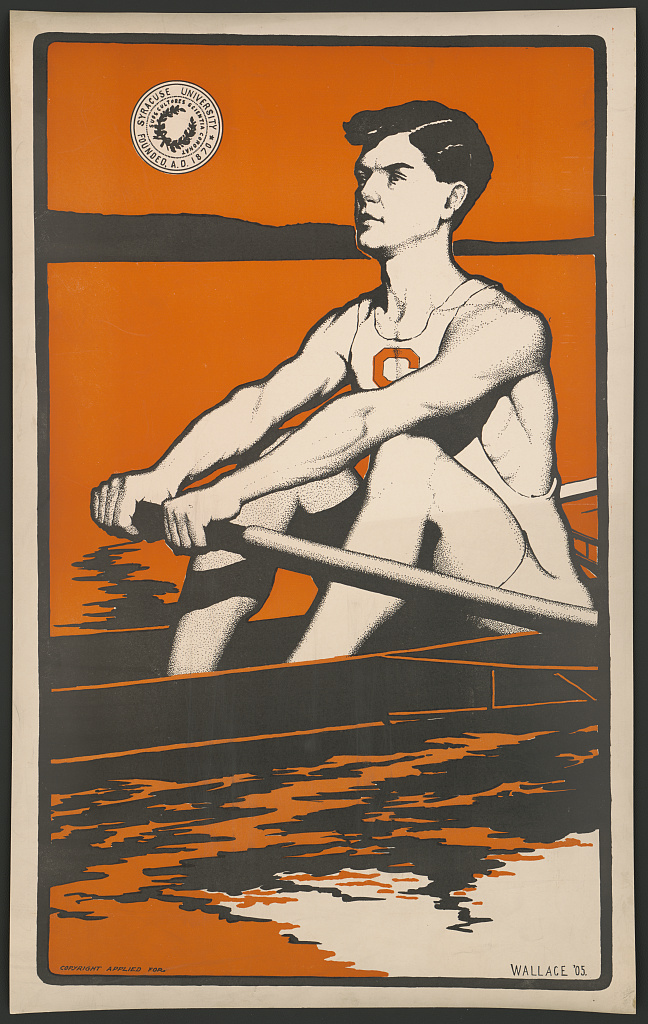 Poster shows a young crewman from Syracuse University sitting in a racing shell grasping an oar.